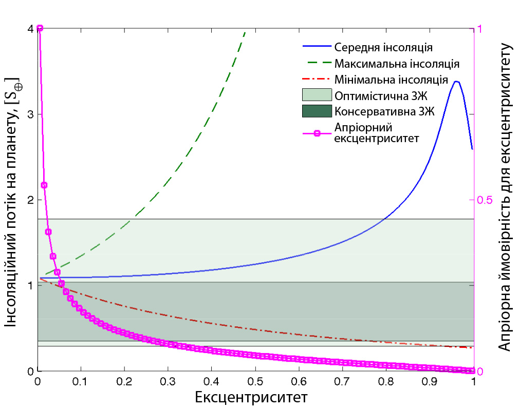 The insolation flux, in Earth insolation units received by the planet Kepler-452b as a function of orbital eccentricity, along with a prior distribution for eccentricity for transiting planets as per Rowe et al. (2014). The mean, max, and min insolation flux values are indicated by the solid blue, the dashed green and the dashed-dotted red curves, respectively. The optimistic and conservative habitable zones are indicated by the light and dark green shaded regions, respectively. The eccentricity prior is indicated by the solid magenta curve with the square symbols. Text in the image translated to Ukrainian language.